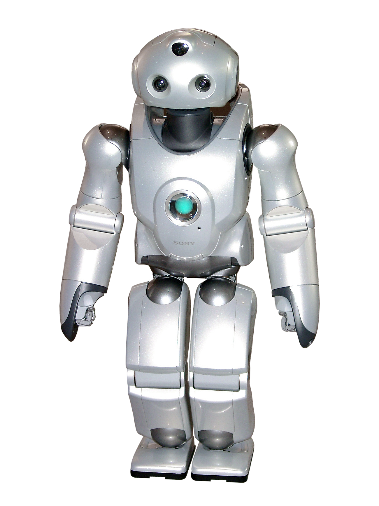 Presentation of the Sony Qrio Robot at the RoboCup 2004.